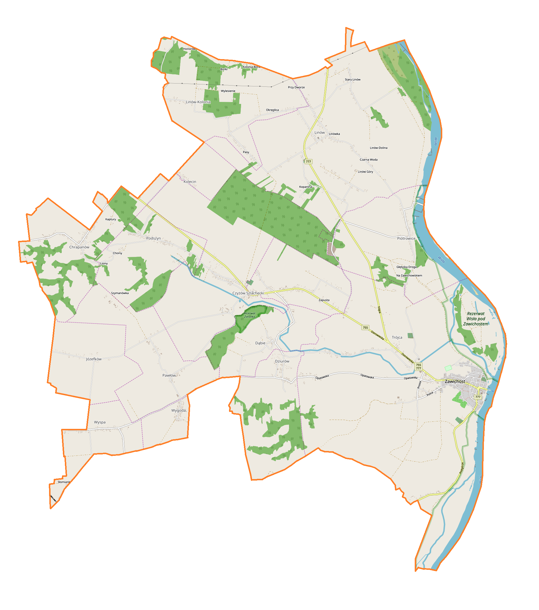 Location map